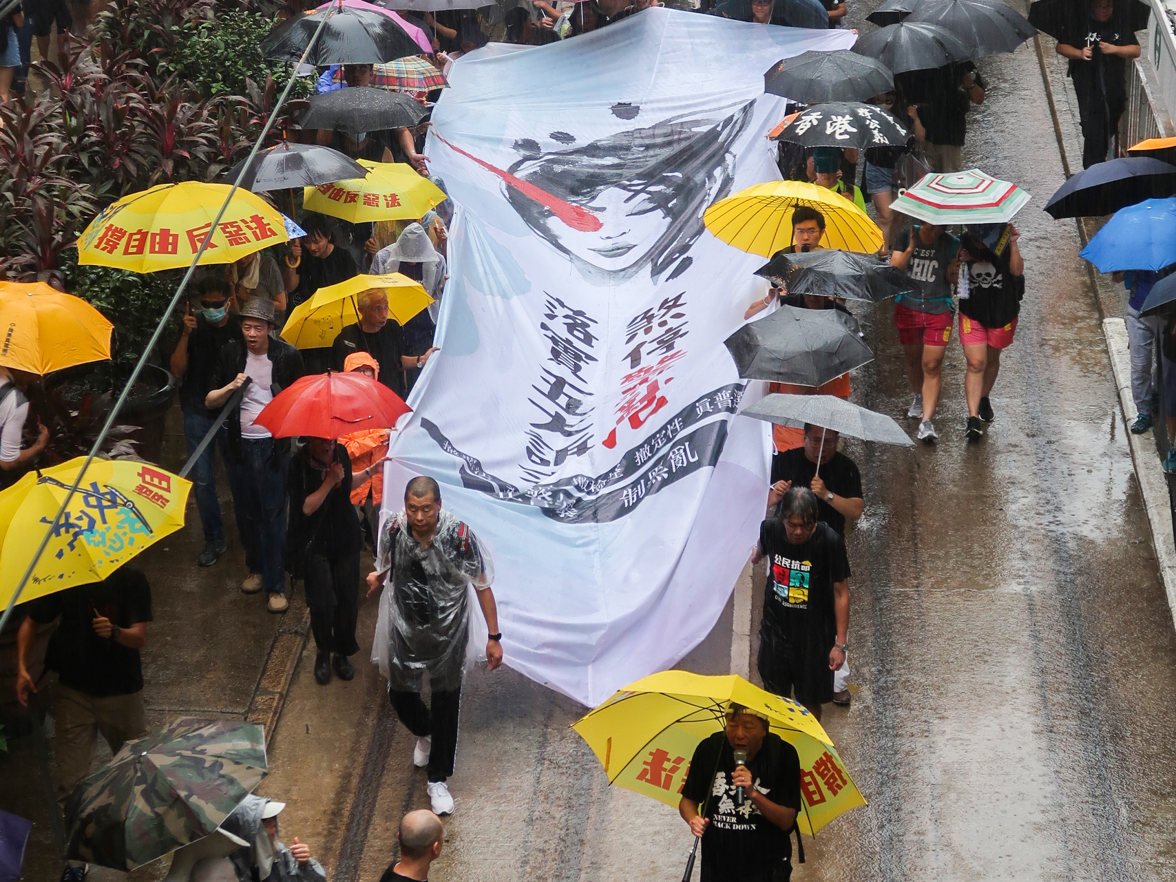 Rally starting in Yee Wo Street view